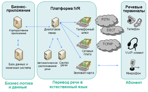 Architecture of Interactive Voice Response Systems